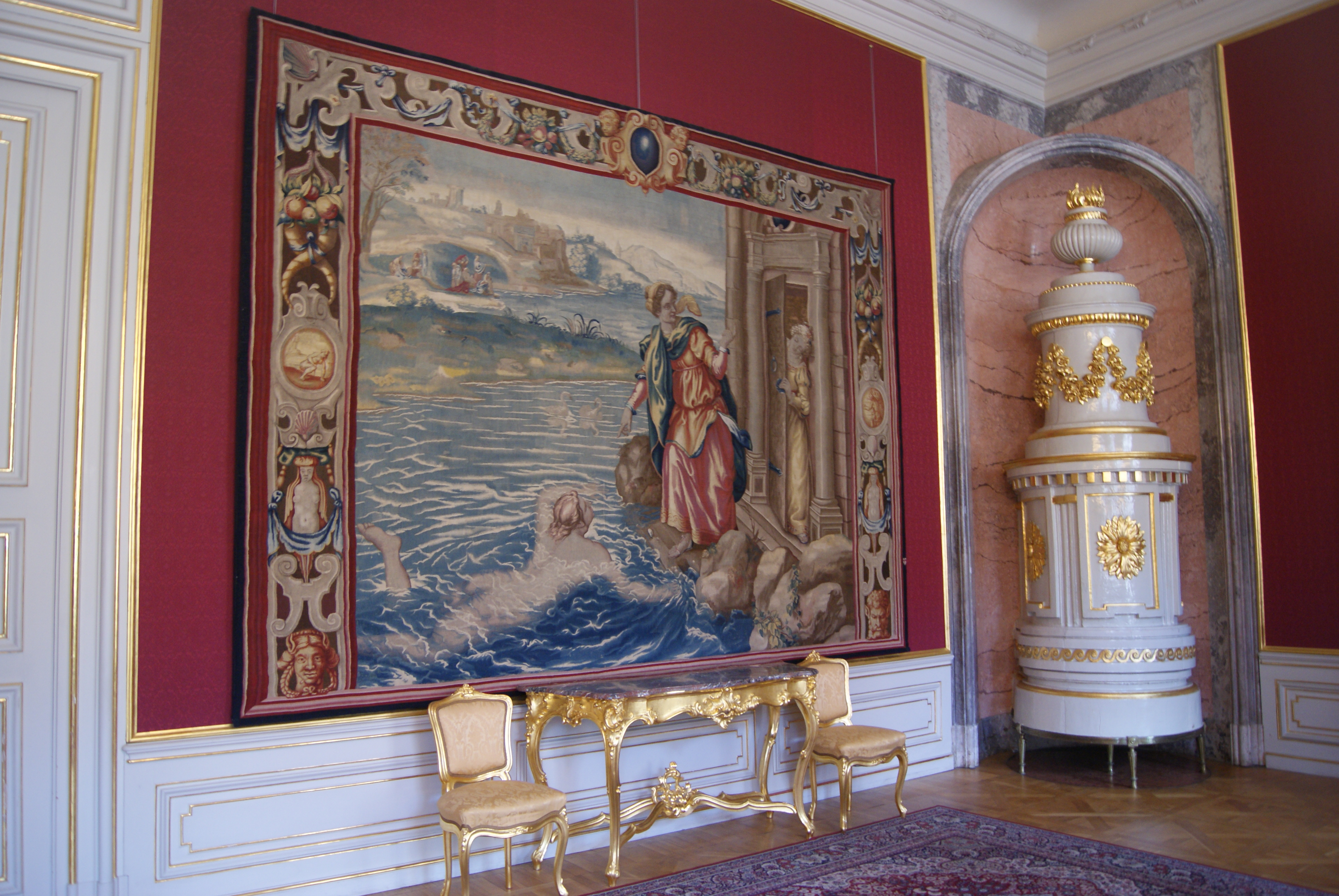 One of the six tapestries on display in the Primate's Palace, Bratislava, Slovakia. Designed by Francis Cleyn (c. 1582–1658) and woven in the 1630s at the Mortlake Tapestry Works managed by a Dutchman, Phillip de Maecht, at Mortlake, London, the tapestries relate the Greek myth of Hero and Leander. They were discovered folded behind wallpaper in the vestibule of the Palace's Hall of Mirrors.